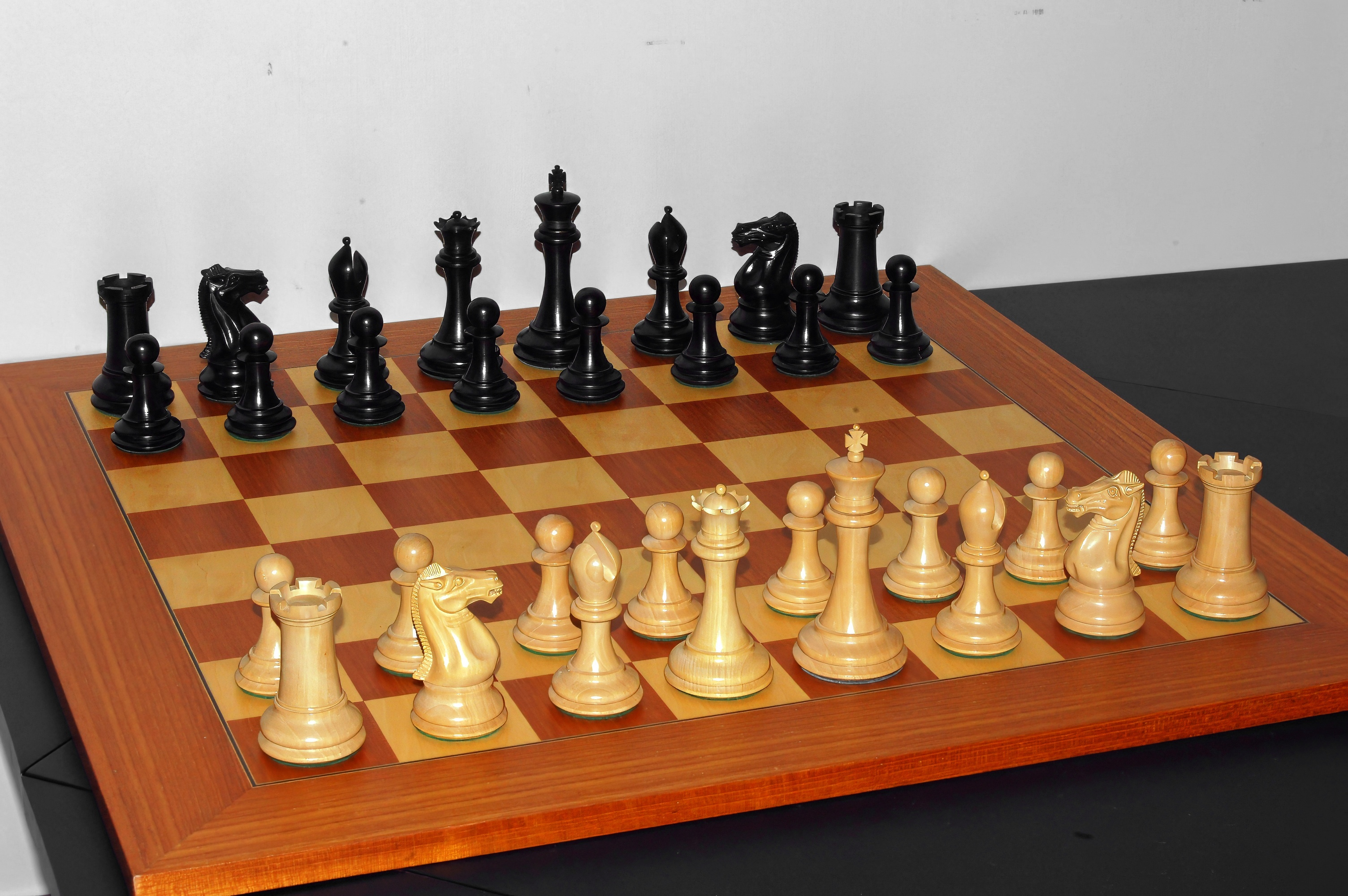 Starting position of a chess game. House of Staunton Collector set.